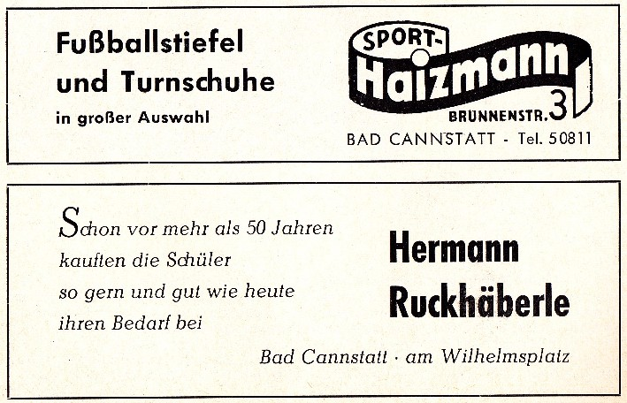 Example for promotion in a German student newspaper, advertised in 1962 in Stuttgart, Baden-Württemberg (3rd issue of "Der Schwamm", Gottlieb-Daimler-Gymnasium).